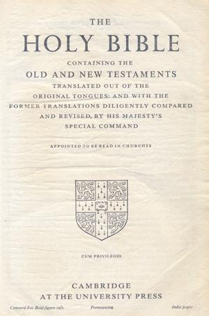 The frontispiece page to the w:1611 King James Version of the Bible. Source URL (from Wikipedia: Image:Frontpiece_Cambridge.gif).